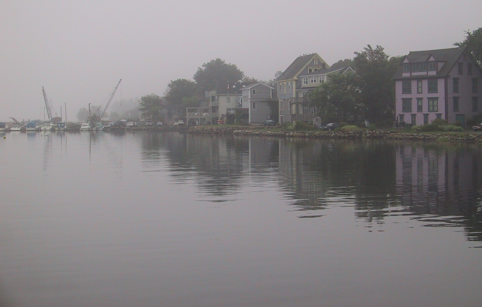 The fog enshrouds Mahone Bay, Nova Scotia, Canada